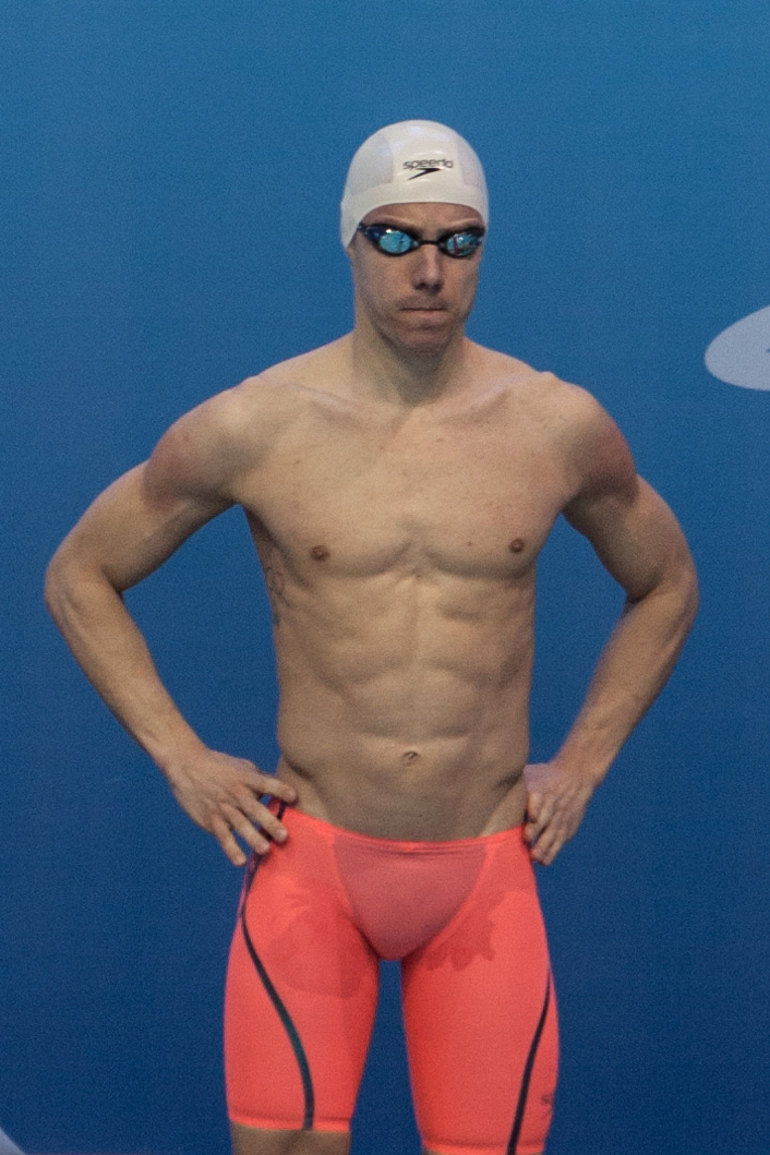 Swimmer Marko Blazhevski at the 2015 European Short Course Swimming Championships in Netanya